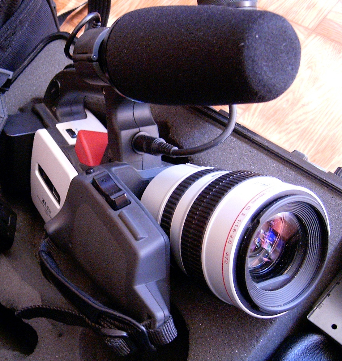 A Canon XL-1s DV camera. It's not mine and I didn't get a chance to ask permission to move it for a nice product shot, so I snapped this one of it in its case. It works well enough for now, I might replace it later if I get a chance to take a better one.